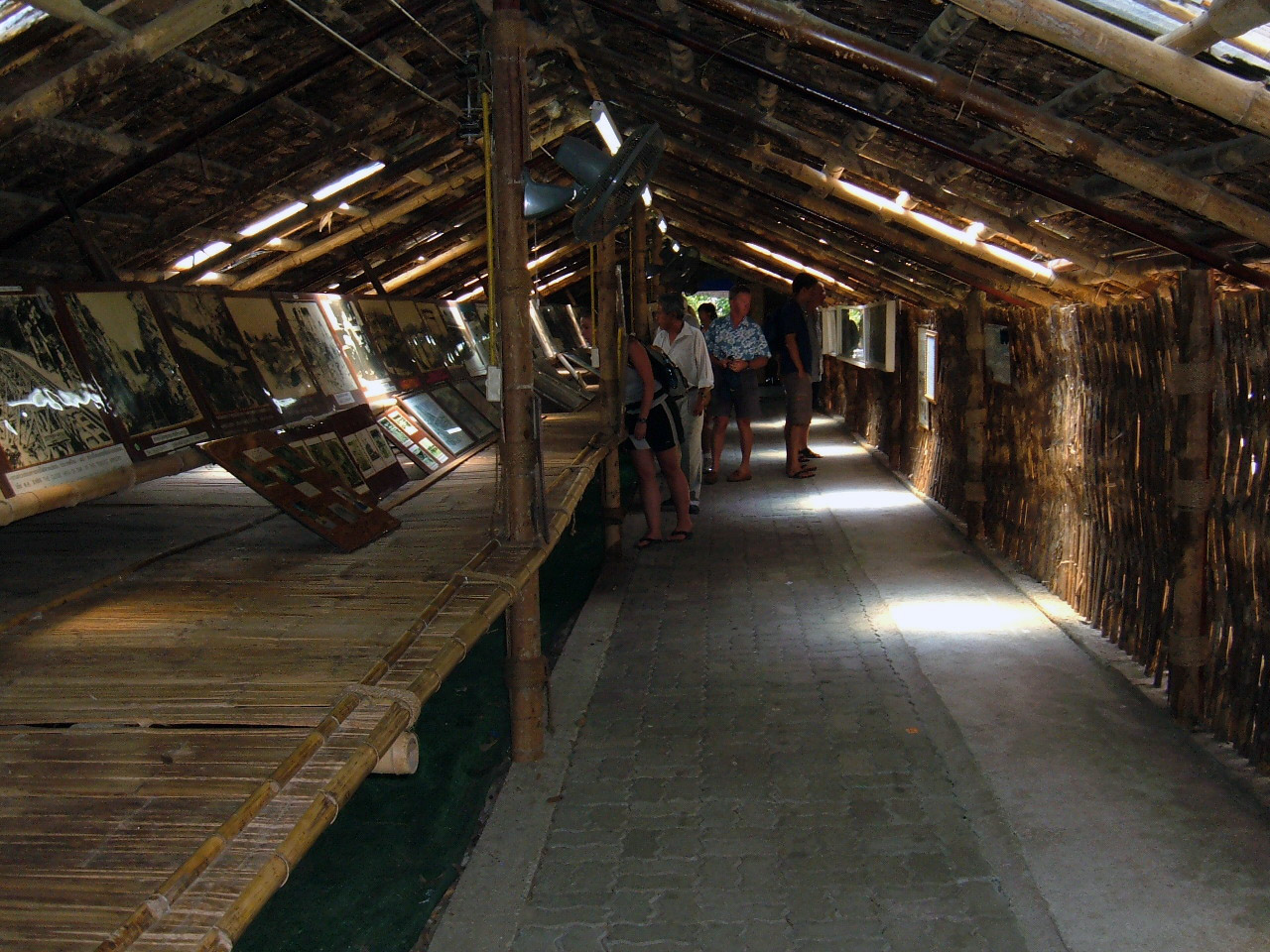 Section of the JEATH War Museum in Kanchanaburi, Thailand depicting the construction of the Death Railway. This portion of the museum is intended to recreate the quarters used by Allied POWs.